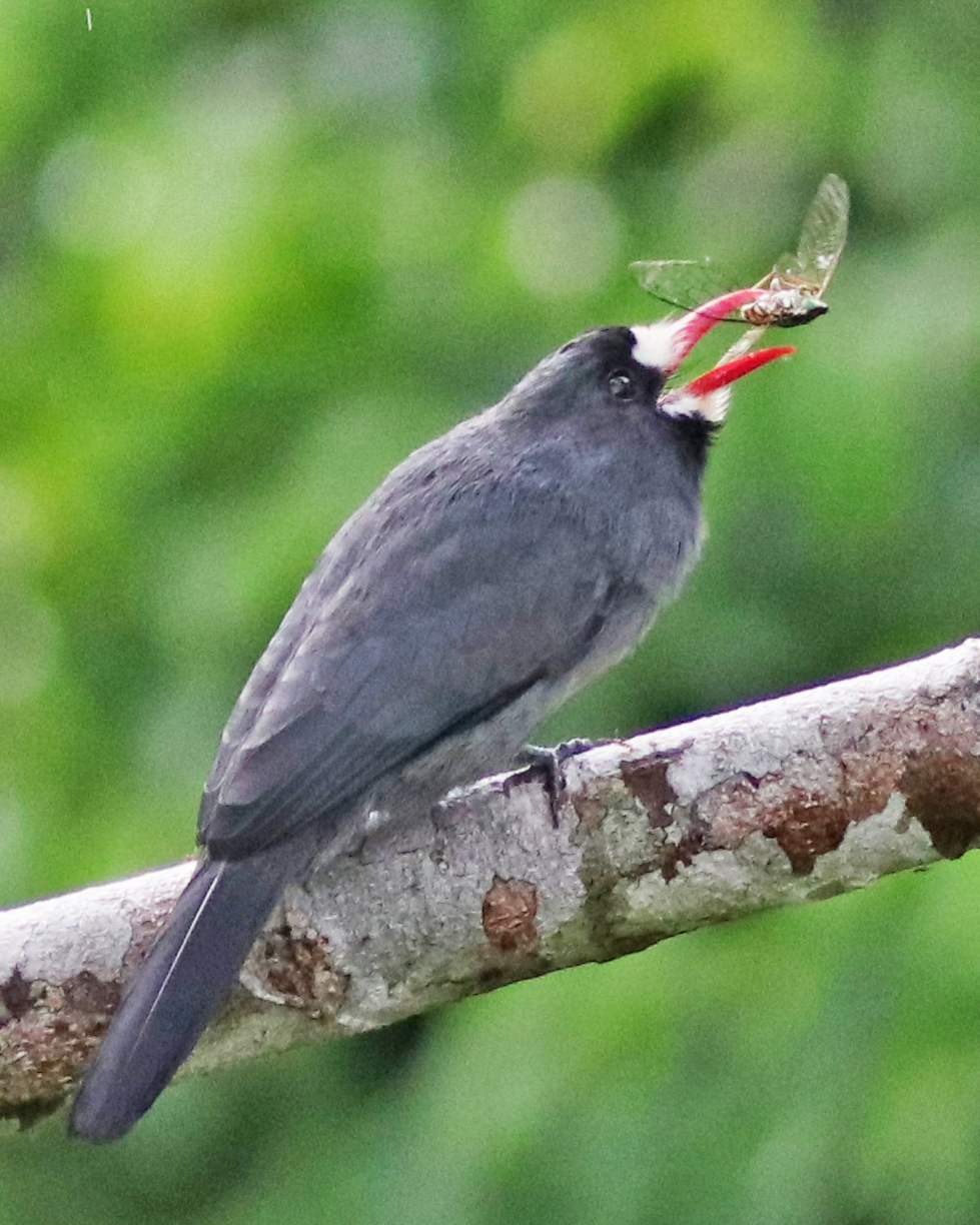 photo of a White-fronted Nunbird eating a cicada taken at San Jorge Sumaco Balo near Loreto, Ecuador